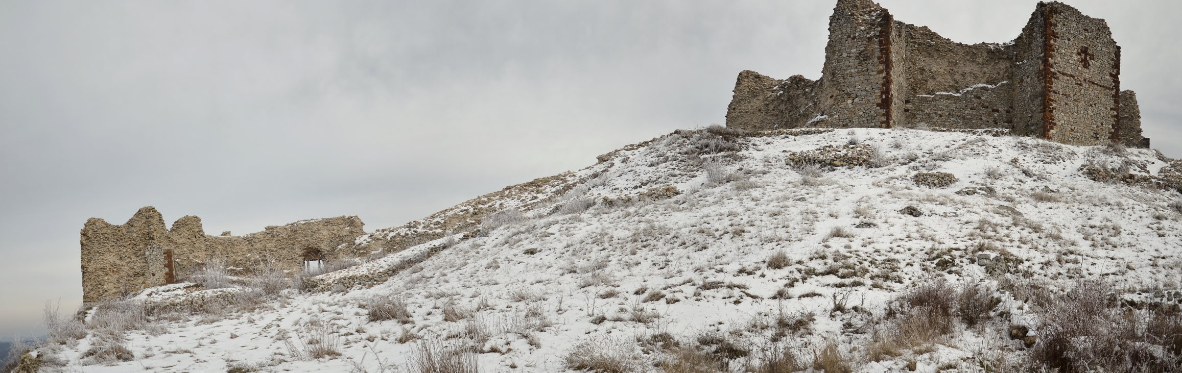 A panorama of the oldest castel in Kosova